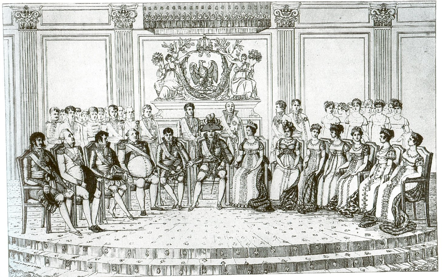 Contemporary drawing from life showing Napoleon I with allied sovereigns, their wives and other family members at a ball given by the City Hall of Paris on 4 December 1809. Seated from left to right: King Murat of Naples, King Frederick Augustus I of Saxony, King Jérome of Westphalia, King Frederick I of Wurttemberg, King Louis I of Holland, Emperor Napoleon, Empress Joséphine, Napoleon's mother Letizia, Marie Julie of Spain (wife of Joseph I of Spain), Hortense of Holland, Marie Caroline of Naples, Frédérique Catherine of Westphalia, Pauline Bonaparte.